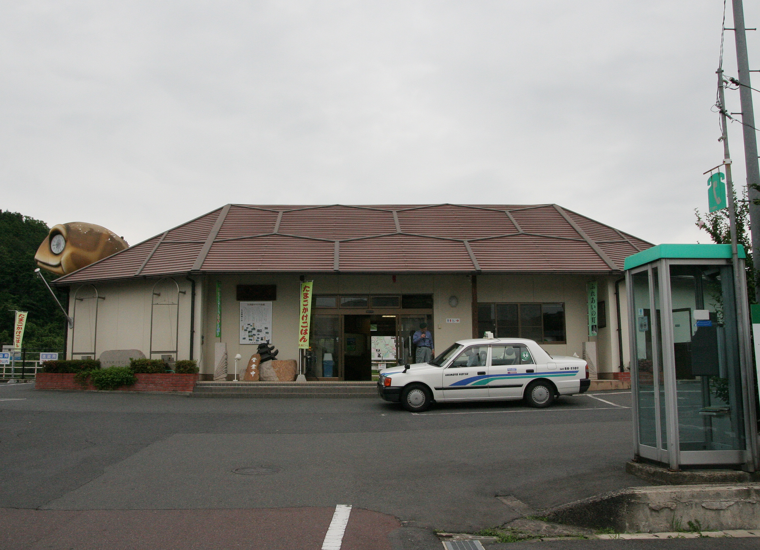 West Japan Railway Company Tsuyama Line Kamenokou station